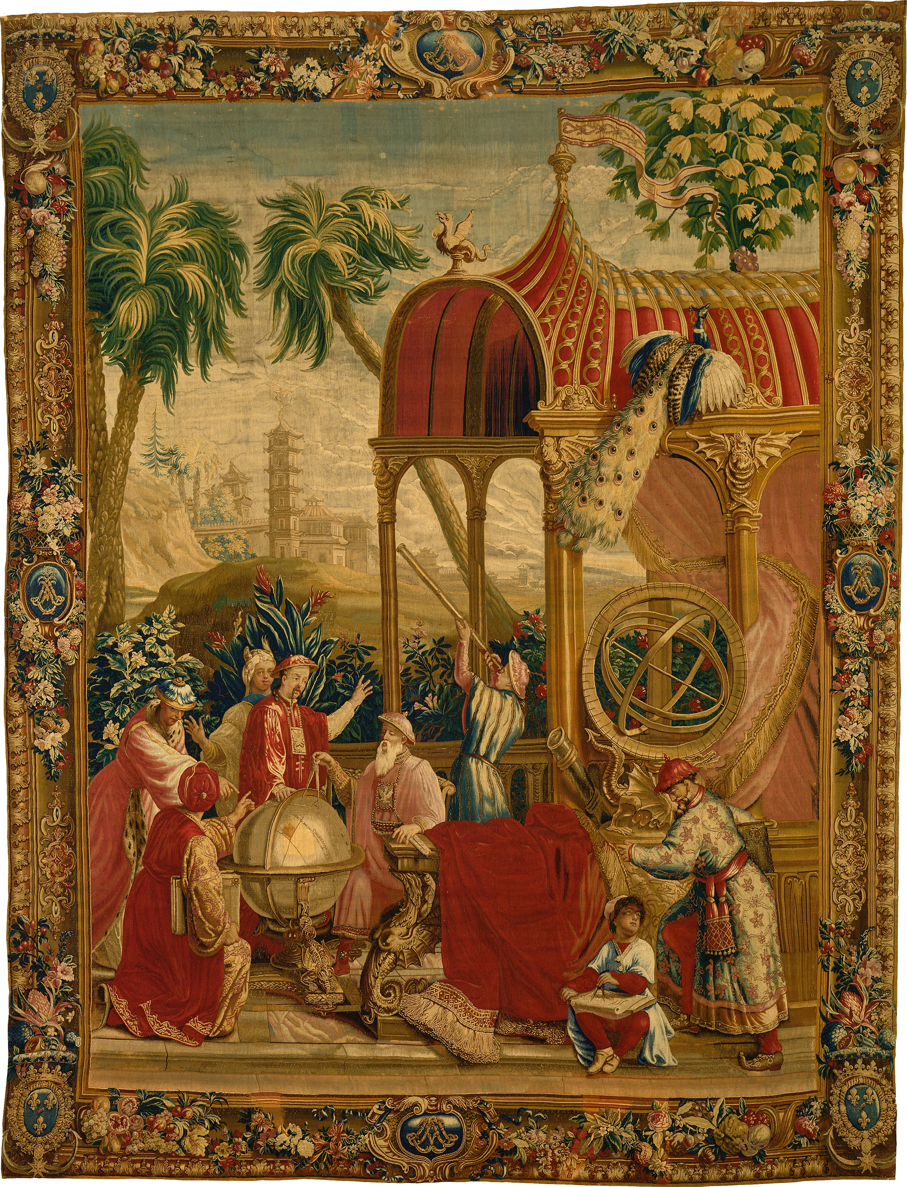 An late 17th to early 18th century tapestry done by the Beauvais Manufactory depicting Chinese astronomers at the Beijing Ancient Observatory using new more accurate instruments brought to them by Europeans (Jesuits) which were installed in 1644.